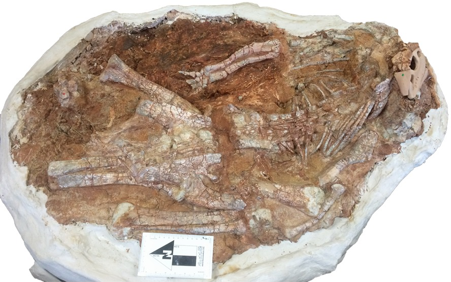 Articulated specimens. (A) SMU 70456, articulated subadult individual on display at the Proctor Lake Corps of Engineers Office. Scale arrow equals 10 cm. (B) Composite skeleton on display at the Perot Museum of Nature and Science. Scale bar equals 10 cm. (C) SMU 75379 and SMU 75380, partial articulated skeletons found stacked on one another. Scale bar equals 5 cm.